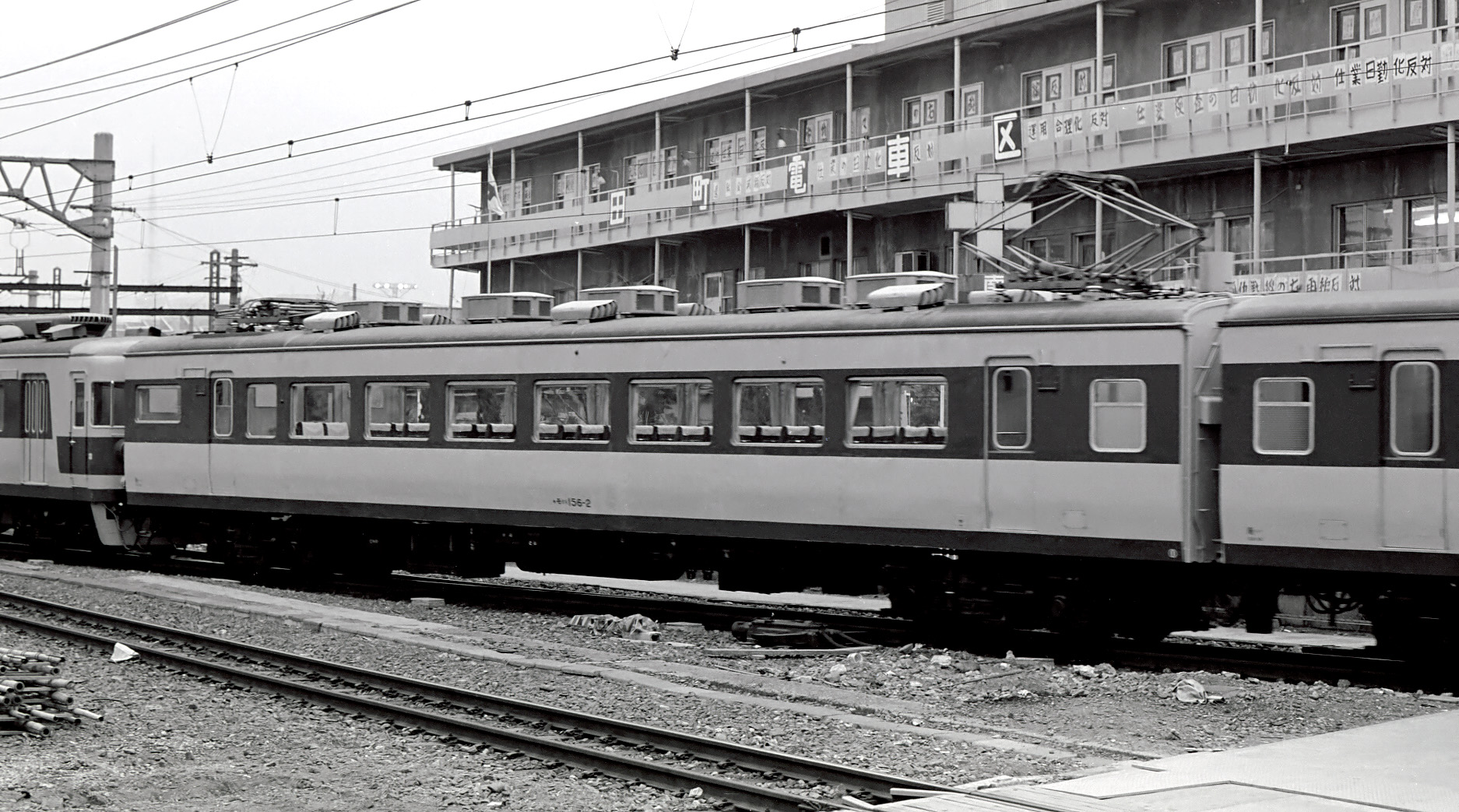 Japanese National Railways 157 series EMU car MoHa 156-2 at Shinagawa Station in Tokyo, Japan